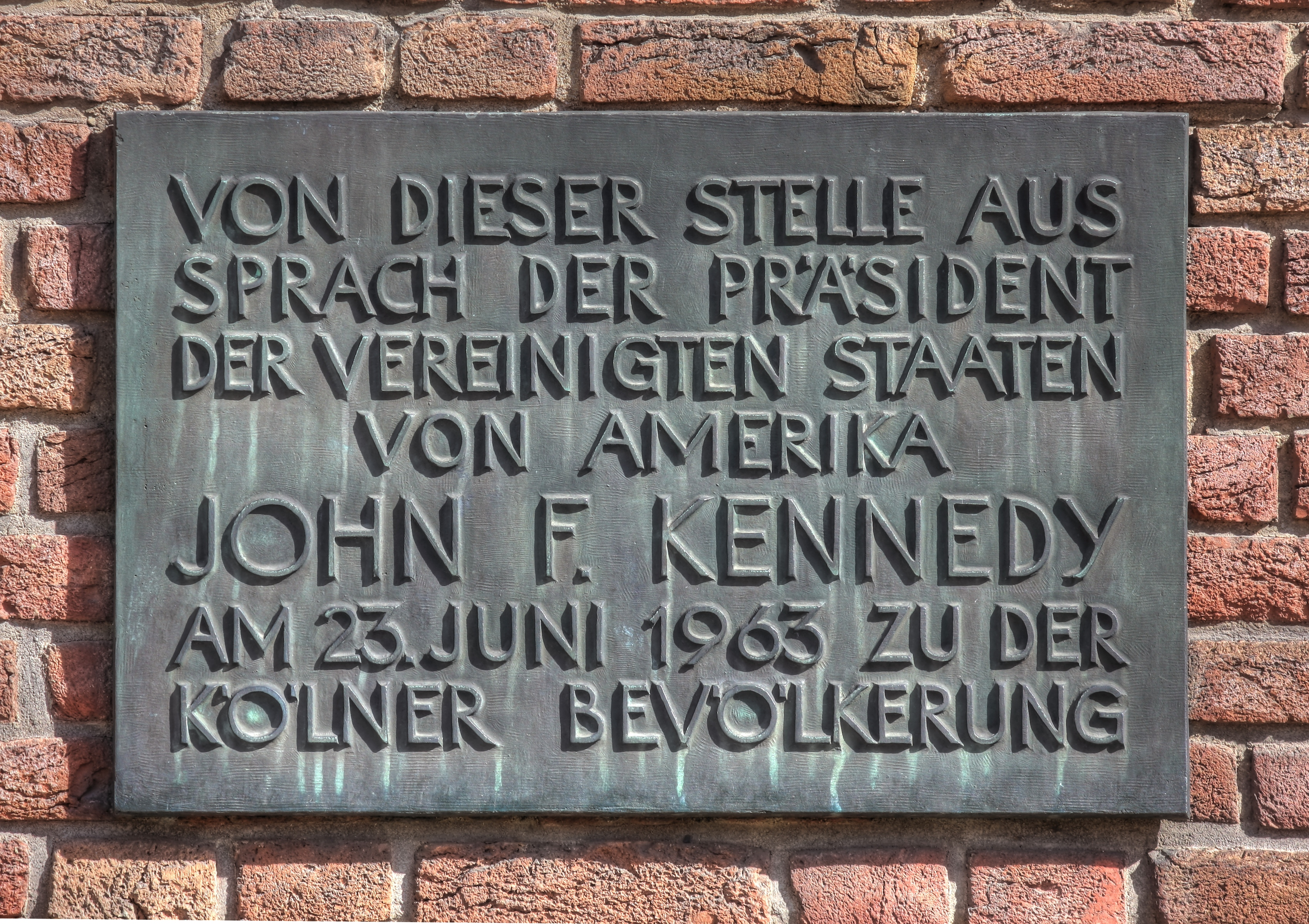 Town hall Cologne. Commemorative plaque for the visit of John F. Kennedy in Cologne and his speech in front of the town hall. Text: Von dieser Stelle aus sprach der Präsident der Vereinigten Staaten von Amerika John F. Kennedy am 23. Juni 1963 zu der Kölner Bevölkerung